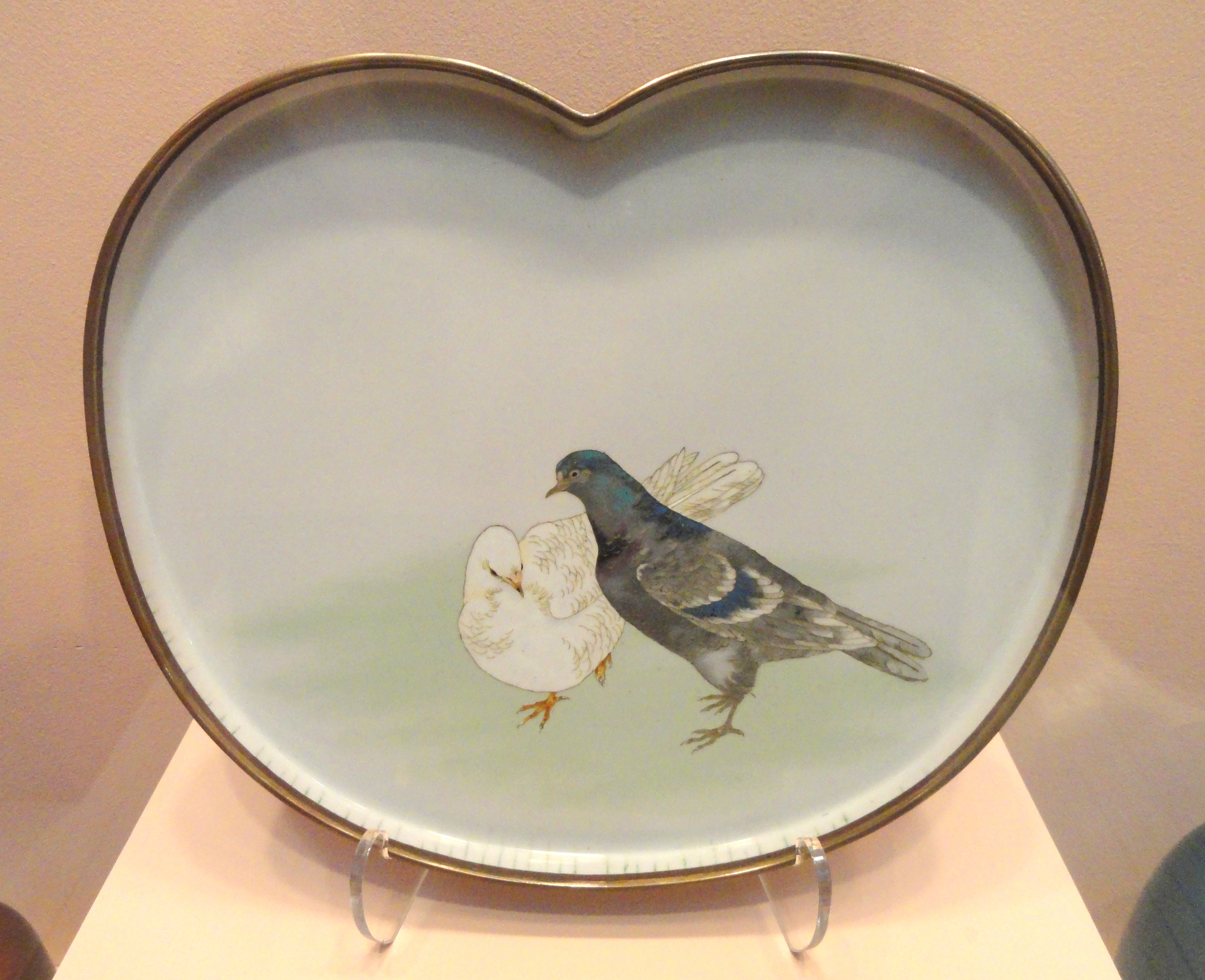 Exhibit in the George Walter Vincent Smith Art Museum, 21 Edwards Street, Springfield, Massachusetts, USA. This item is old enough so that it is in the public domain. The museum permitted photography without restriction.